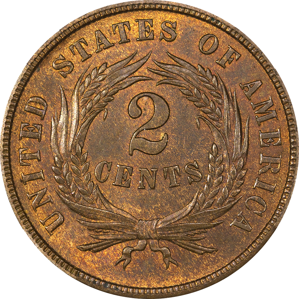 The reverse of an 1865 two cent piece. This coin is graded and certified by NGC as uncirculated MS65RB (red-brown).